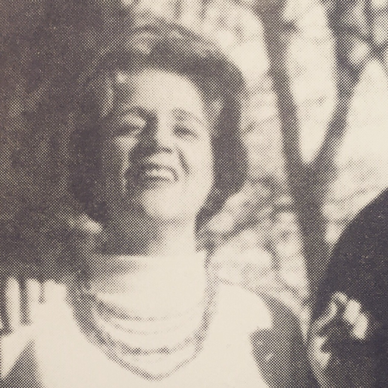 Venezuelan writer Antonia Palacios (1904-2001), winner of the National Prize for Literature of Venezuela in 1976 and the Municipal Prize for Literature of Caracas in 1982.